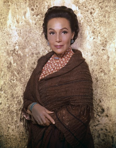 Promotion photo of [:w:Dolores del Río|Dolores del Río in Flaming Star (1960)